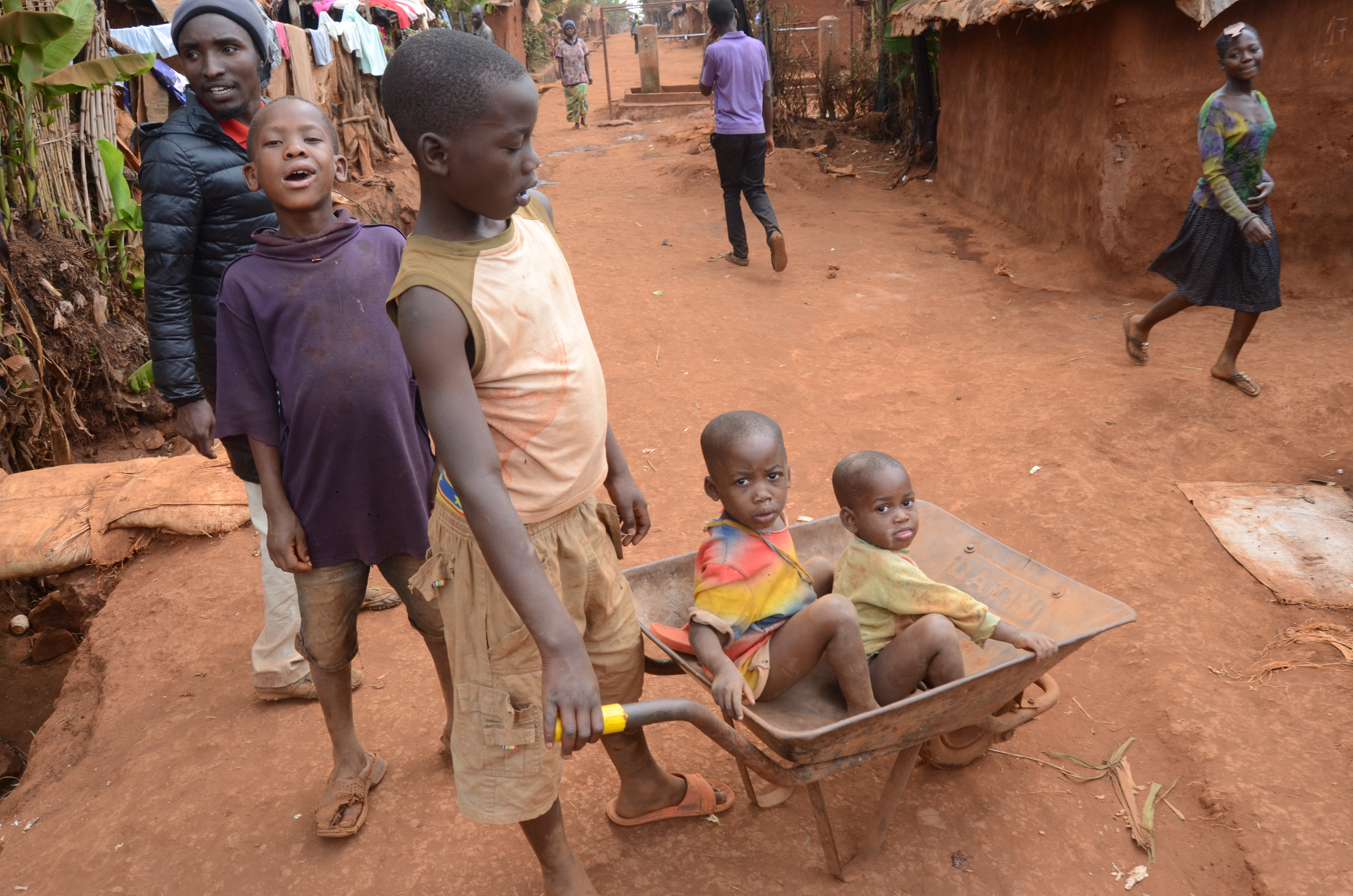 Au camp des réfugiés congolais de Gasorwe This is an image of "African people at work" from Burundi